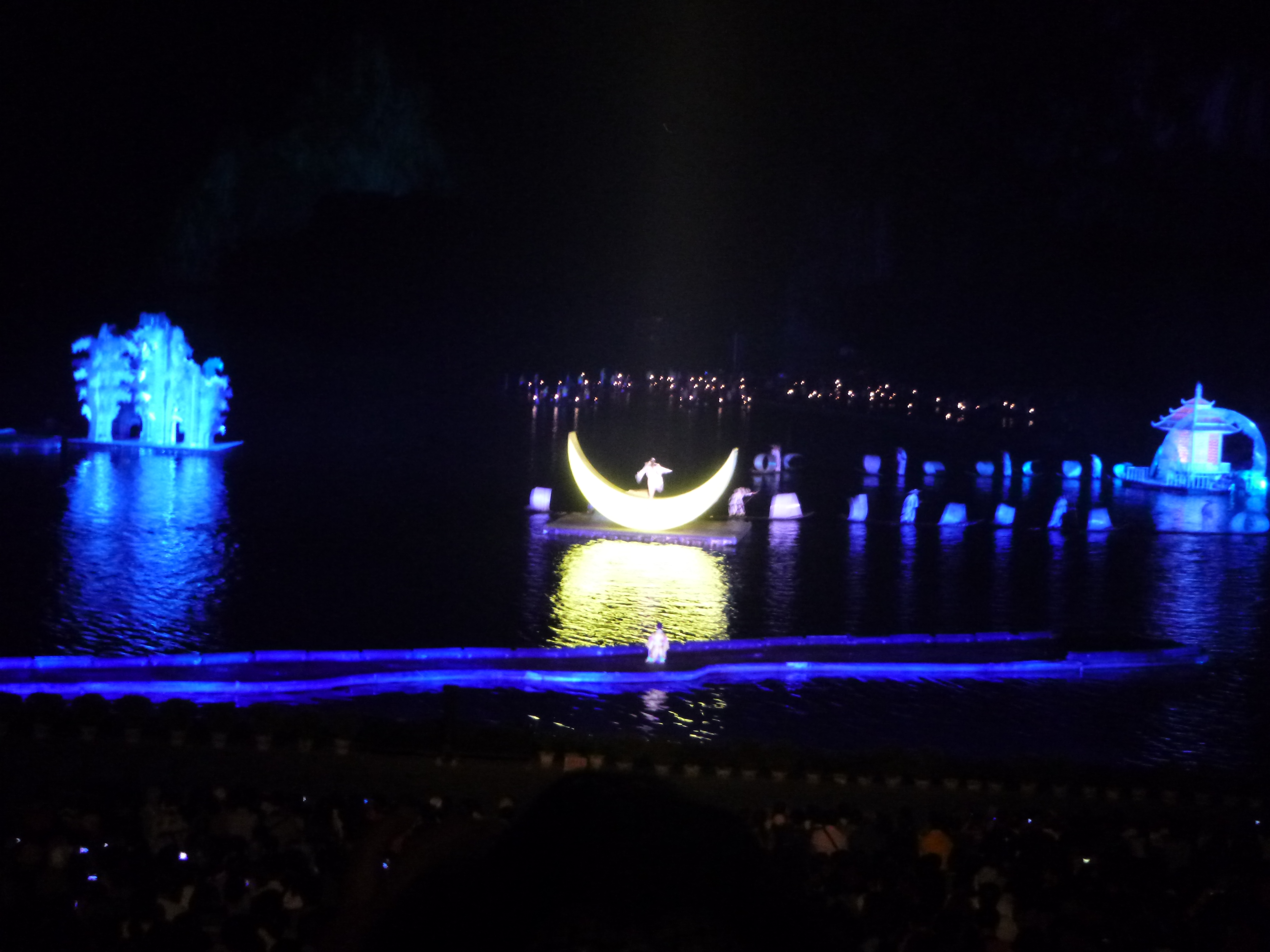 story of the legendary Third Sister Liu (刘三姐 Liú Sānjiě), whose story has been staged by Zhang Yimou